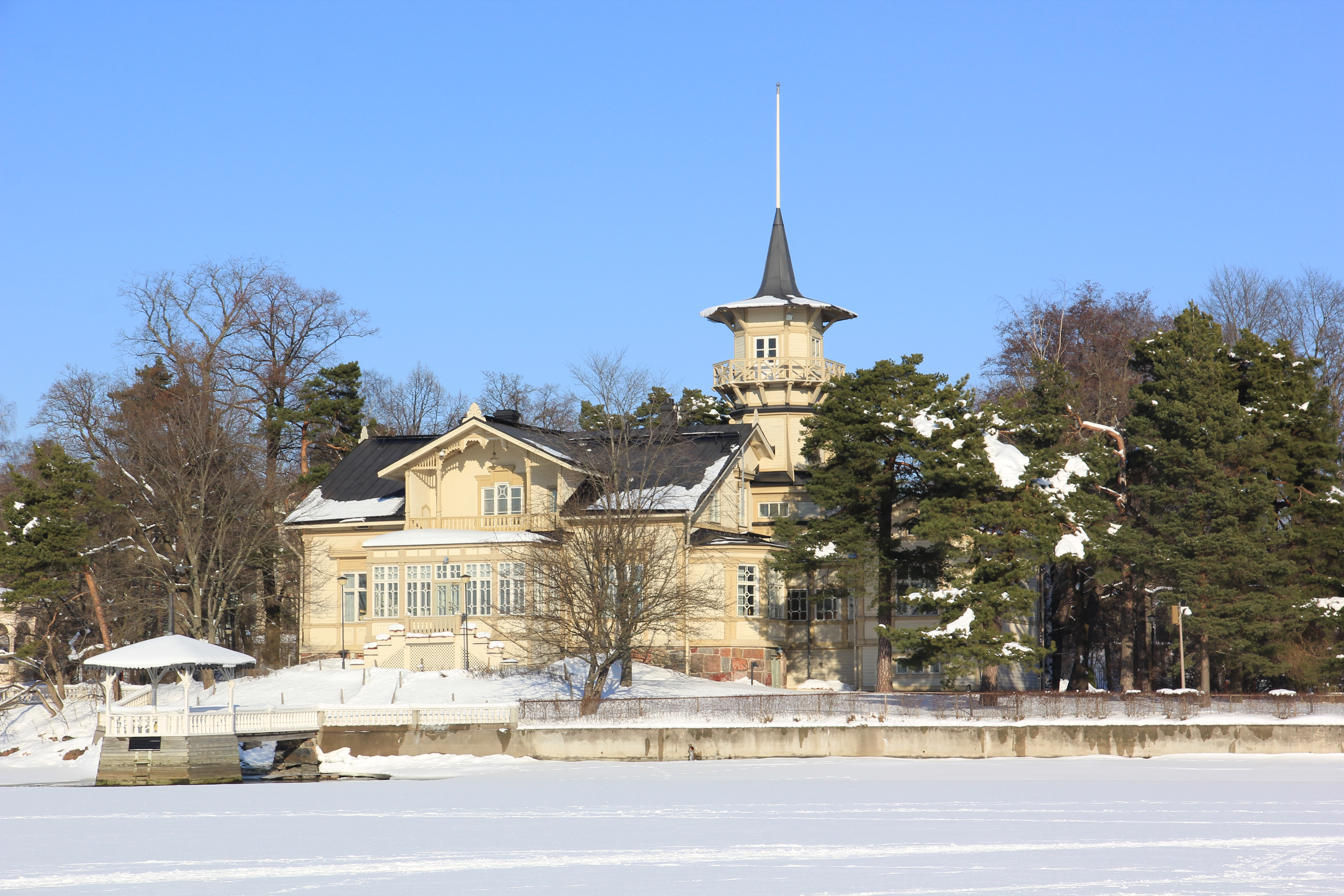 Kesäranta, the official residence of the Finnish prime minister.